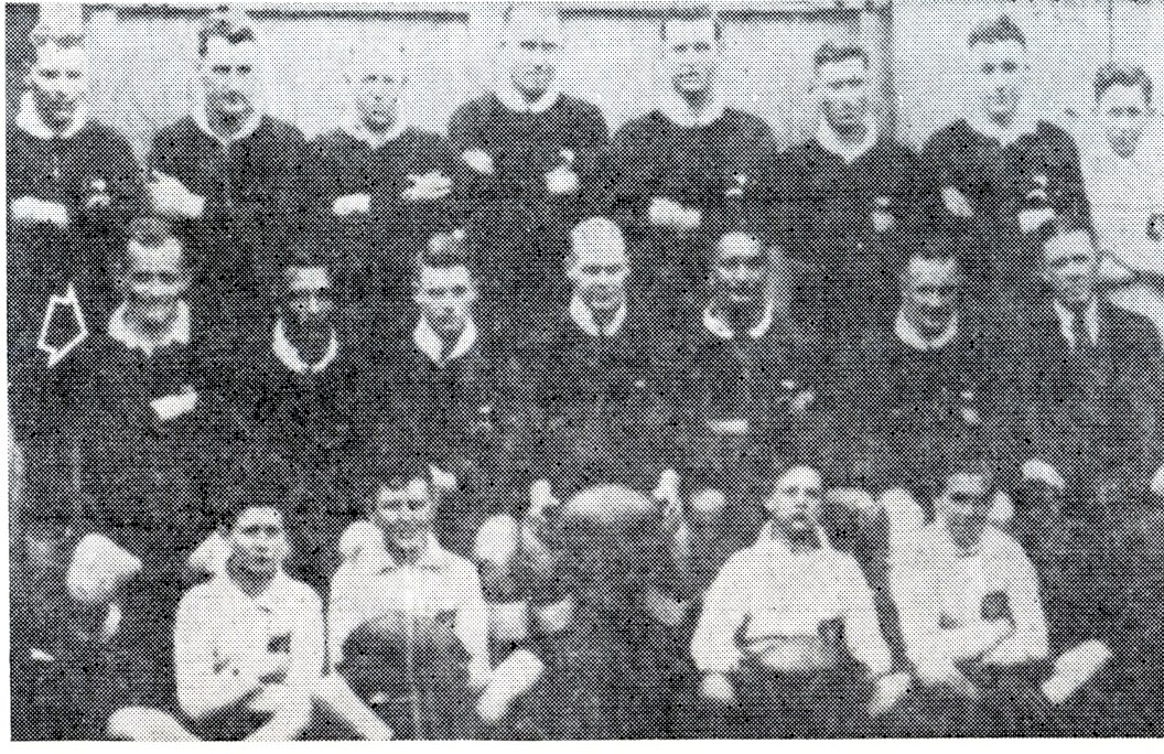 New Zealand Third Test Team versus England at Carlaw Park Saturday August 20th 1932